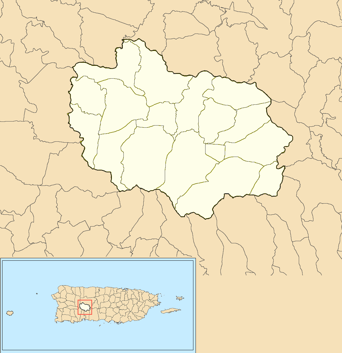 Barrios of Adjuntas, Puerto Rico locator map